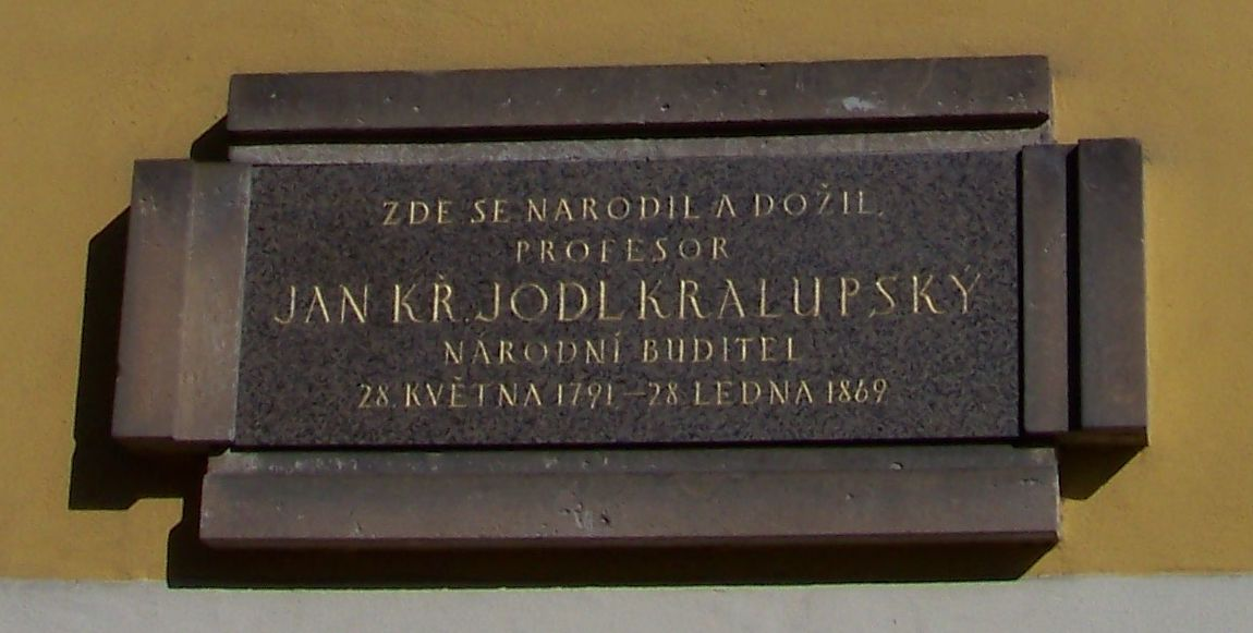 Kralupy nad Vltavou, Mělník District, Central Bohemian Region, the Czech Republic. Jodlova street, U Jodlů house, a plaque to Jan Jodl.